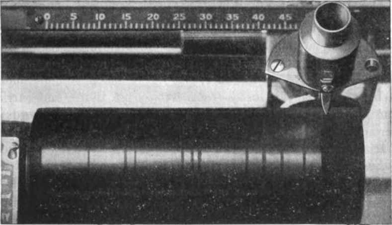 Photo of wax cylinder recording medium in Dictaphone dictating machine from the 1920s. The recording head at right moves from left to right. To play it back, 'stethoscope' type earphones are plugged into the hole in the recording head. The dark bands are shiny gaps between recordings, made by moving the needle forward before each dictation, enabling the typist to find the specific track needed. Each wax cylinder can record 1200-1500 words, and can be reused 100-120 times by putting it in an erasing machine that 'shaves' off the surface.